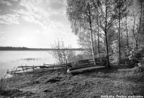 The lake "Lången" outside Örebro, Sweden